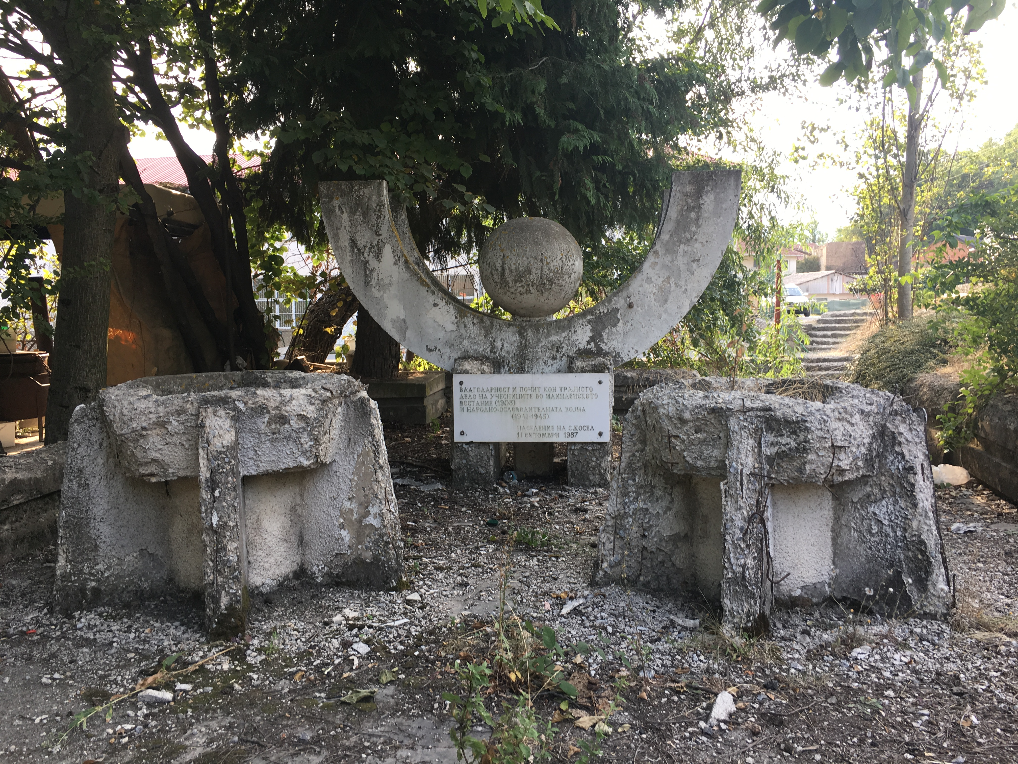 A monument in the village of Kosel